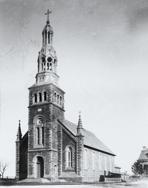 Photograph, St. Isidore, QC, about 1910, Silver salts on paper mounted on card - Albumen process - 22.8 x 19 cm